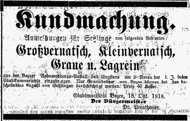 Advertisment for wine plants from Bozen-Bolzano (South Tyrol) in 1918 (October)